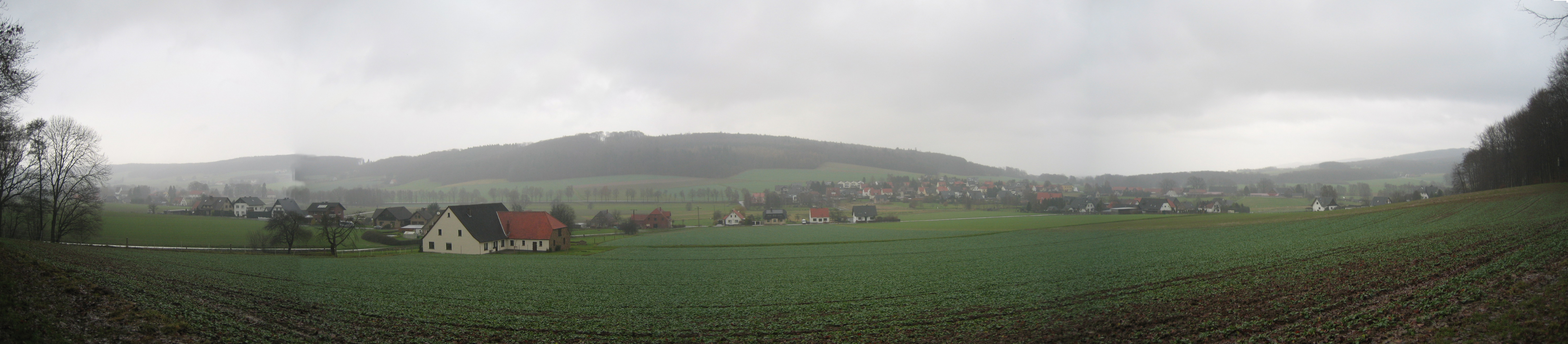 View over Eggetal valley and Limberg mountain in Preußisch Oldendorf-Börninghausen, Germany.